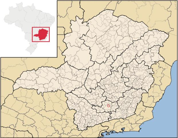 Location of Santa Cruz de Minas